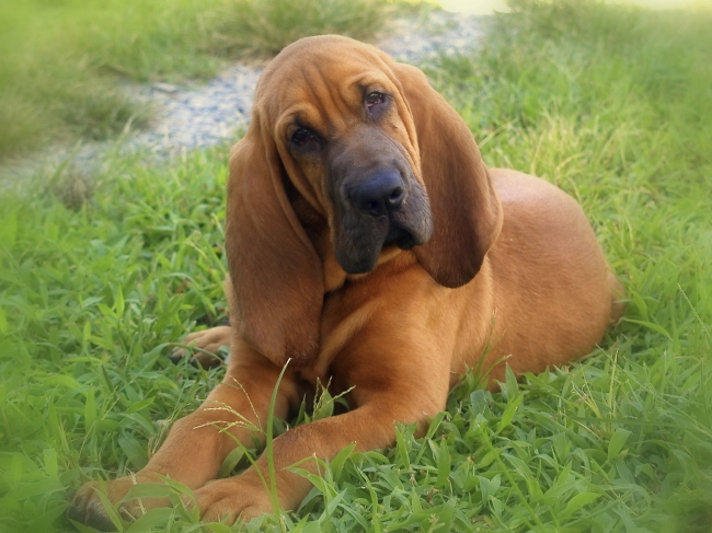 My daughter's 3 month old Bloodhound "Hoss."